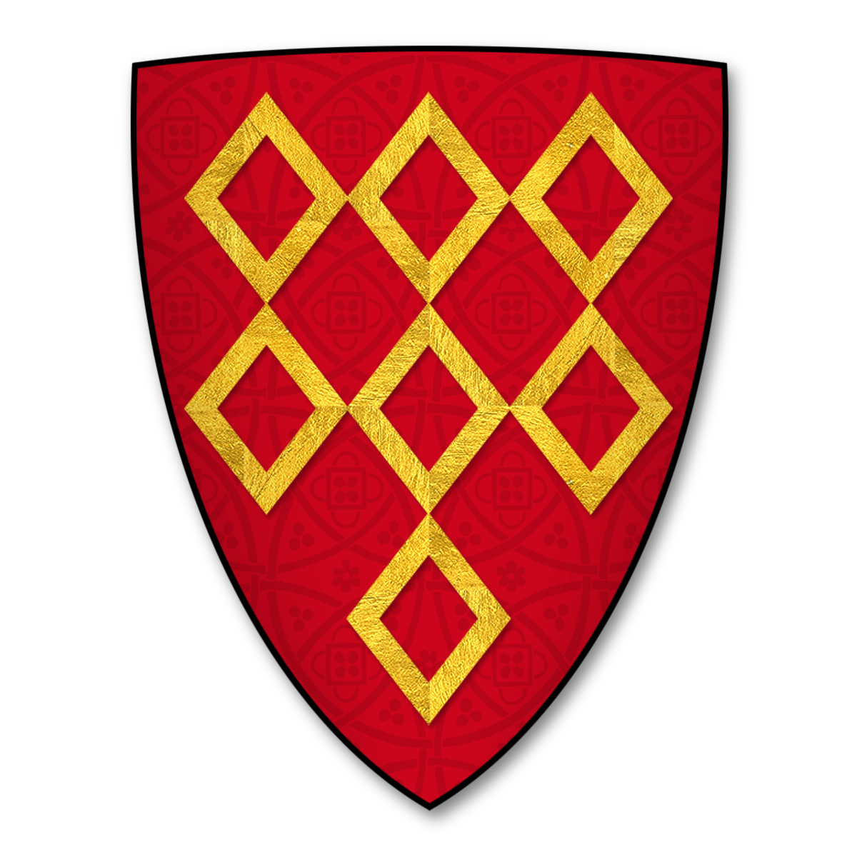 Coat of arms of William de Ferrers, as blazoned in the Caerlaverock Poem (K-075: "Guillemes de Ferieres") "De armes vermeilles ben armés O mascles de or del champ voidiés." Arms: Gules, [seven] mascles or. (Note: The stanza does not specify the number of mascles, but seven are given in the Falkirk roll.)